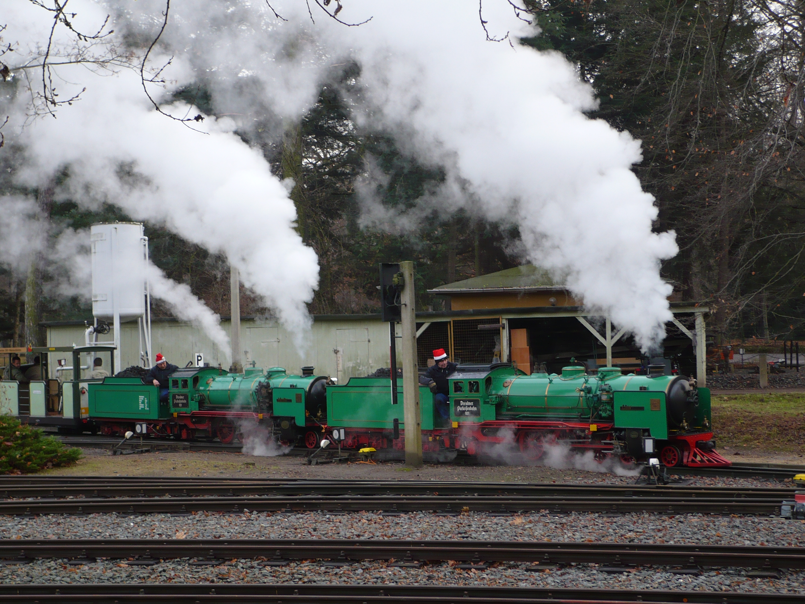 Dresden Park Railway, Saint Nicholas' Eve, Steam locomotives 001 Lisa (right) and 003 Moritz shorly after water refilling at ZOO station (white water tower on the left)